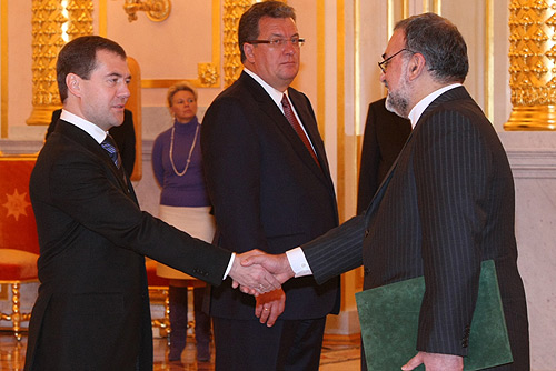 THE KREMLIN, MOSCOW. Presentation ceremony of foreign ambassadors’ letters of credentials. Ambassador of the Islamic Republic of Iran Mahmoud-Reza Sajjadi presents his letter of credentials to the President of Russia Dmitry Medvedev.